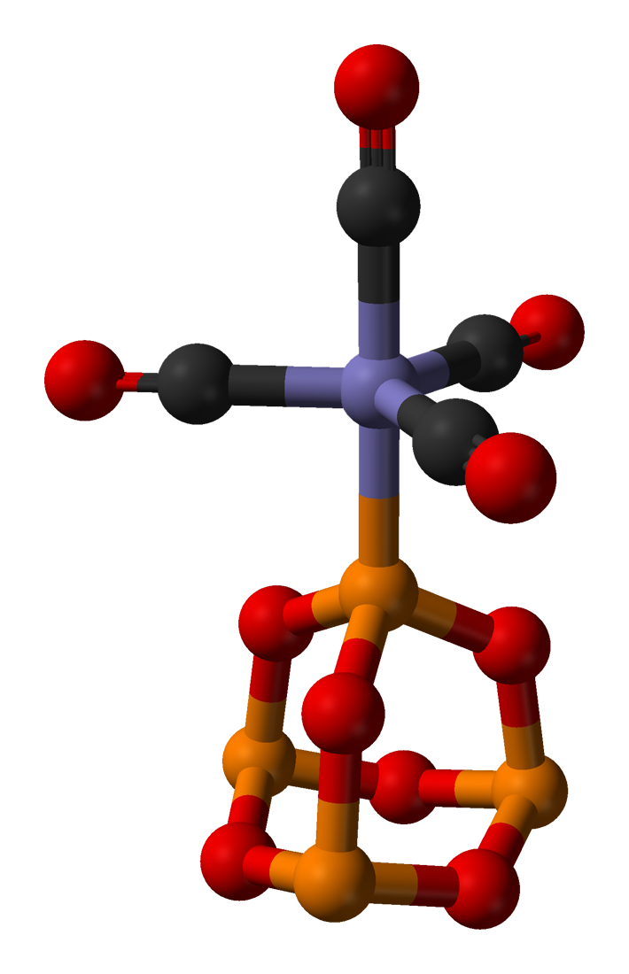 Ball-and-stick model of the P4O6 molecule acting as a ligand in the iron complex [Fe(CO)4(P4O6)]. X-ray crystallographic data from M. Jansen and J. Clade (November 1996). "Tetracarbonyl(tetraphosphorus hexaoxide)iron". Acta Cryst. C52 (11): 2650-2652. Model constructed in CrystalMaker 8.1. Image generated in Accelrys DS Visualizer.